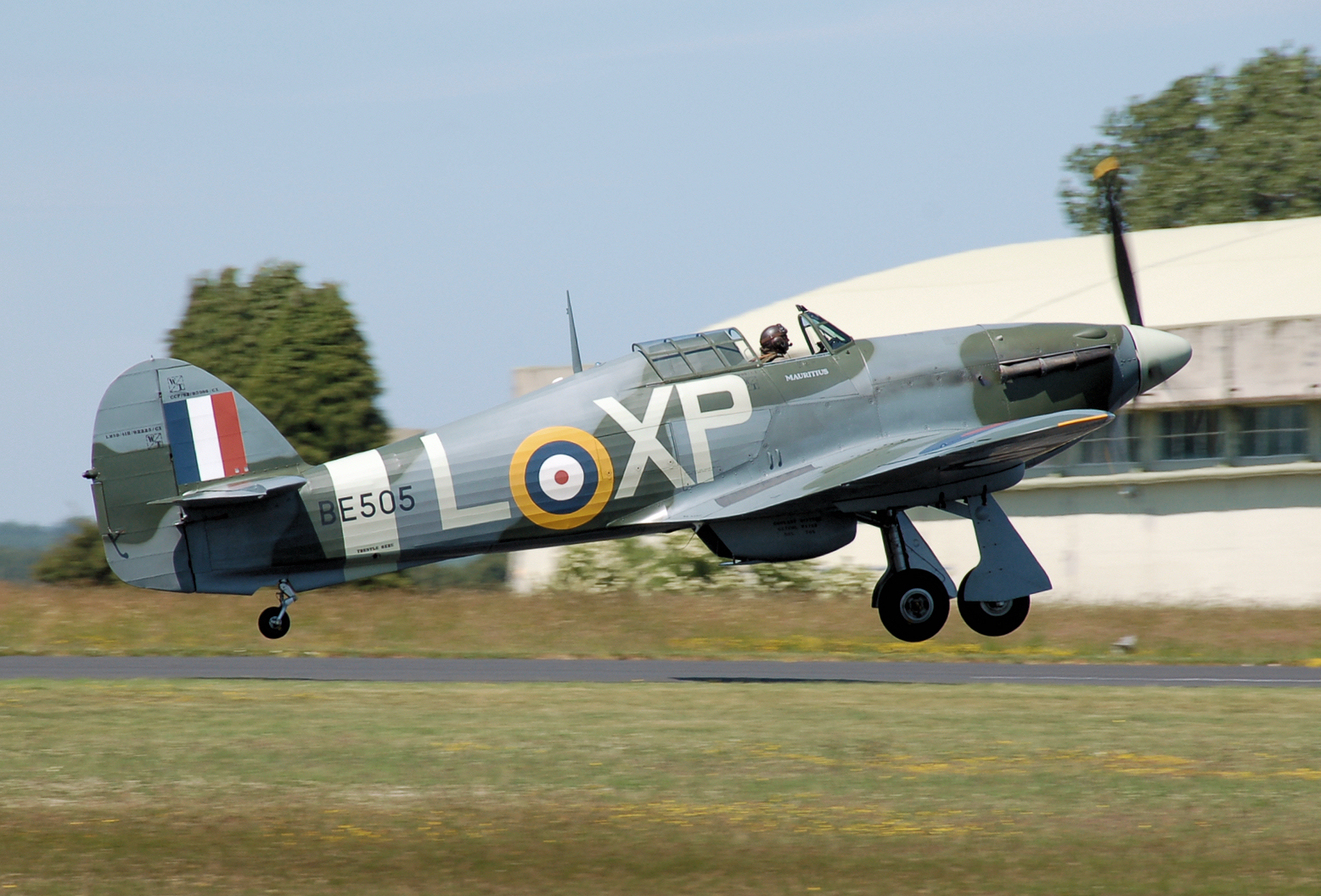 Hurricane IIB (military registration BE505, civil registration G-HHII) takes off for a display at the Cotswold Air Show at Cotswold Airport, Kemble, Gloucestershire, England. Owned by the Hangar 11 collection at North Weald Airfield. Colloquially called a Hurribomber. Built in Canada and served with the Royal Canadian Air Force from 1942-1945.